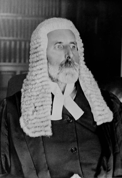 Andrew Lysaght, junior as Attorney-General of NSW, 1927.